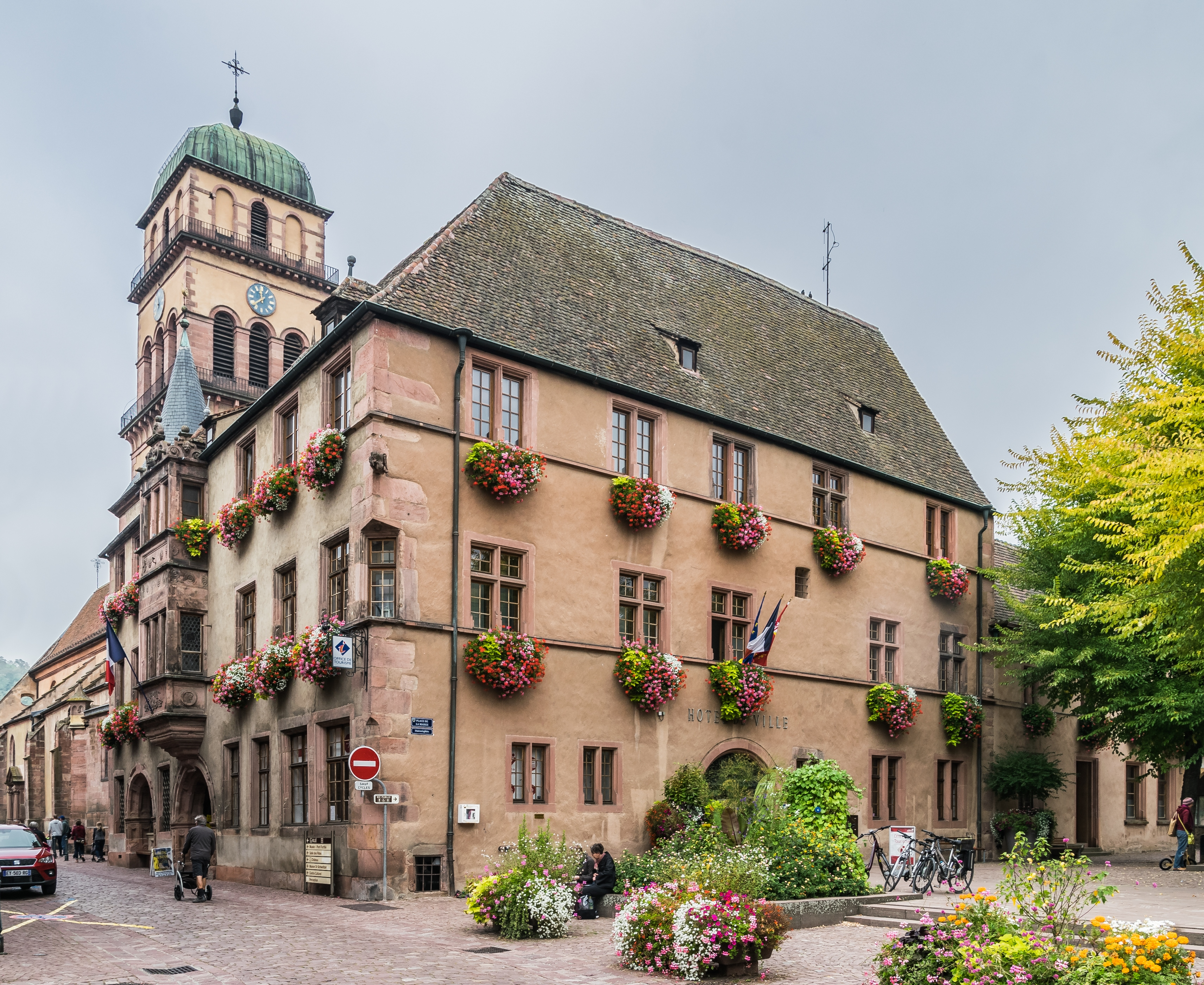 Town hall of Kaysersberg, Haut-Rhin, France .